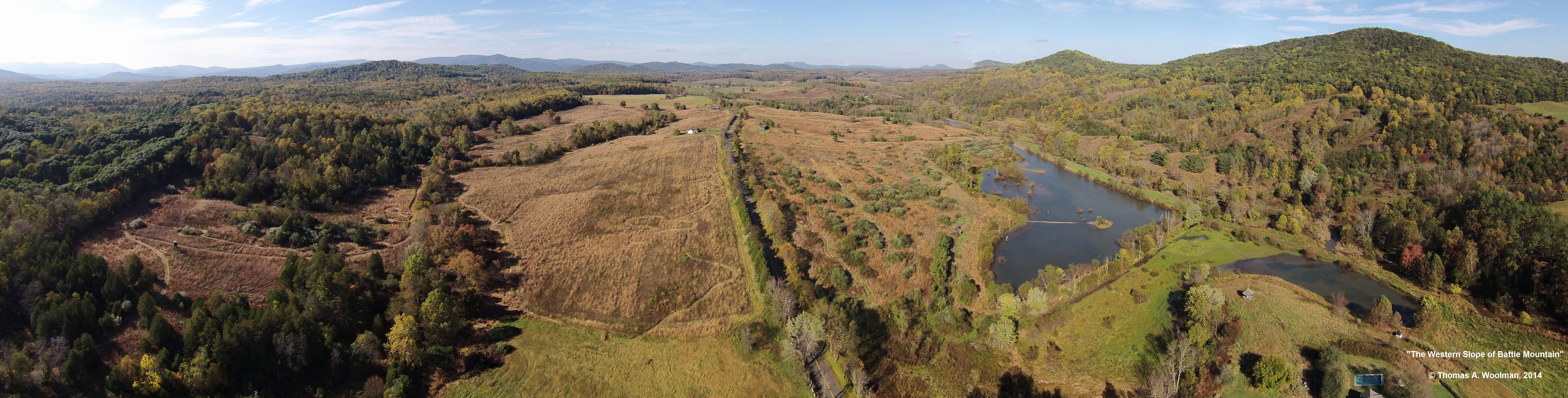 Image shows the western slope of Battle Mountain and Little Battle Mountain on the right, with Aaron Mountain shown on the left. Image is of the Amissville, Virginia region.